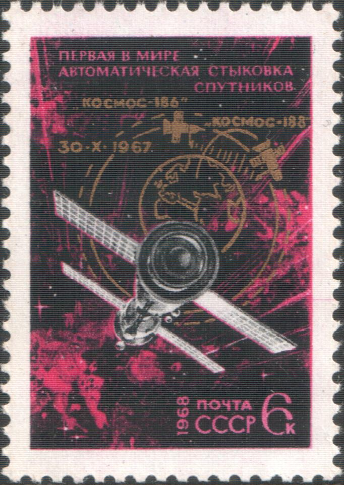 USSR stamp: Linked Satellites, Kosmos 186 and Kosmos 188, and Space Rendezvous Schema. Series: First Space Rendezvous of Two Soviet Satellites, Kosmos 186 and Kosmos 188, October 30, 1967